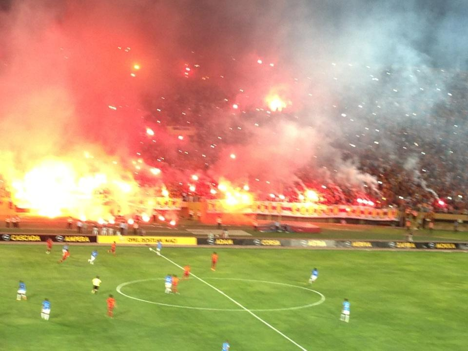 GS-Malaga